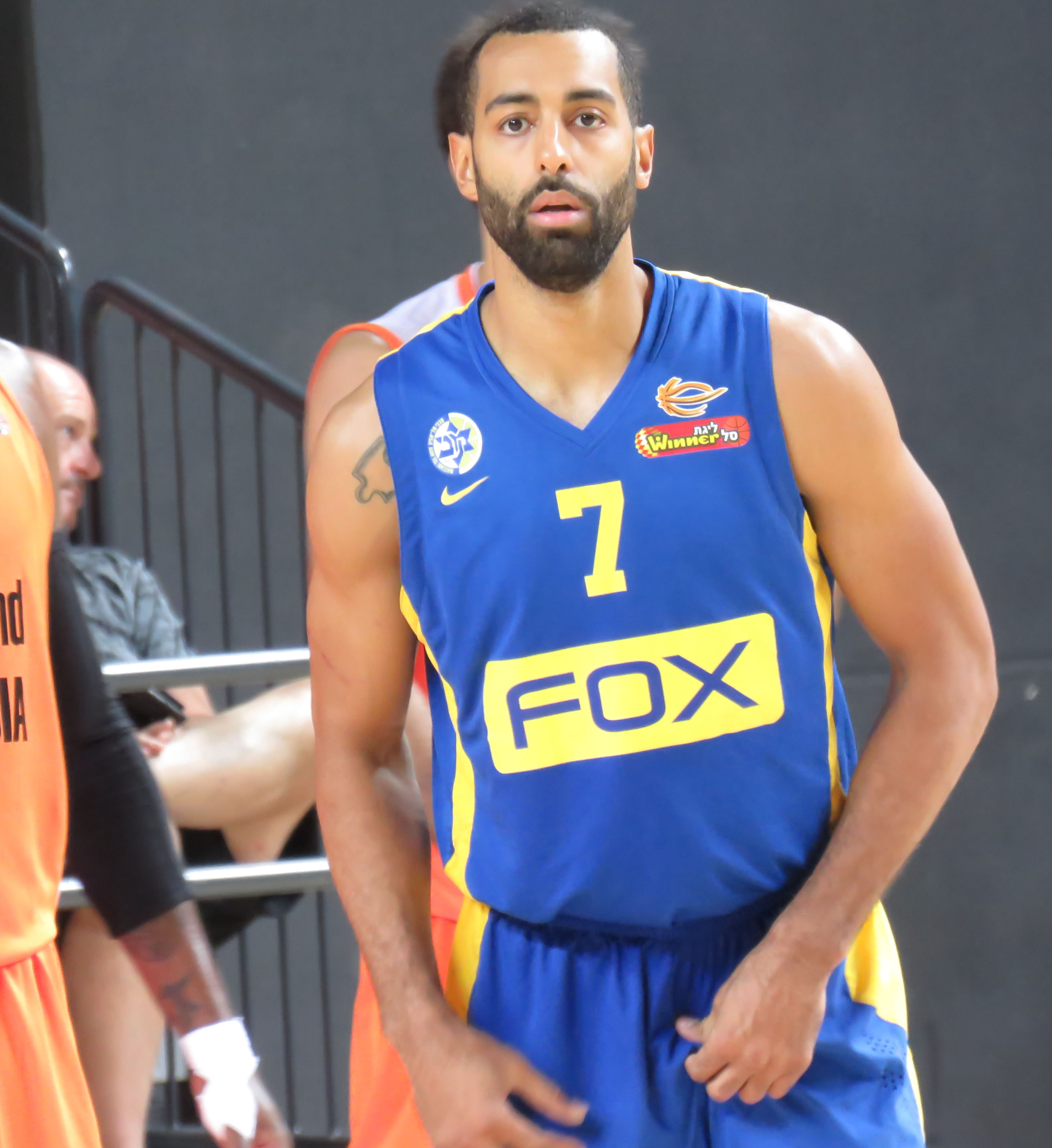 Maccabi Rishon LeZion vs. Maccabi Tel Aviv B.C., 26 September, 2015